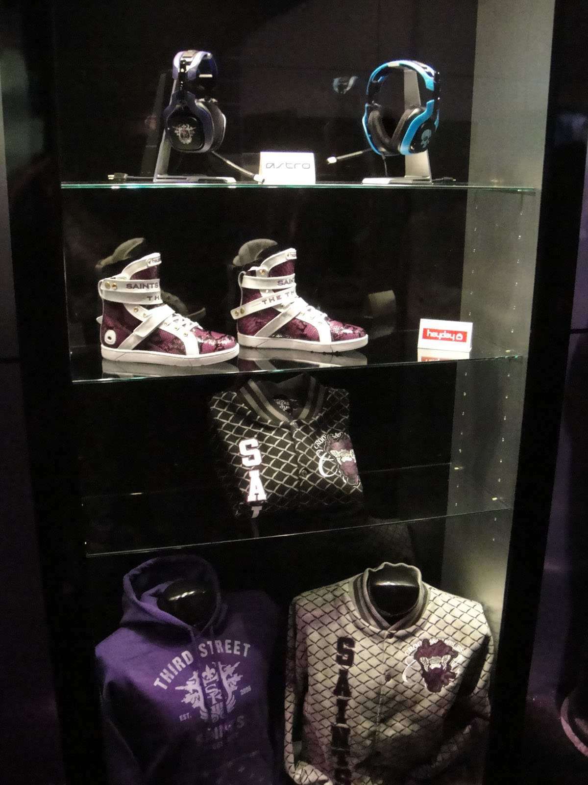 photo 2011 taken by Doug Kline If you're interested in higher resolution versions of my images, contact me via my profile page.